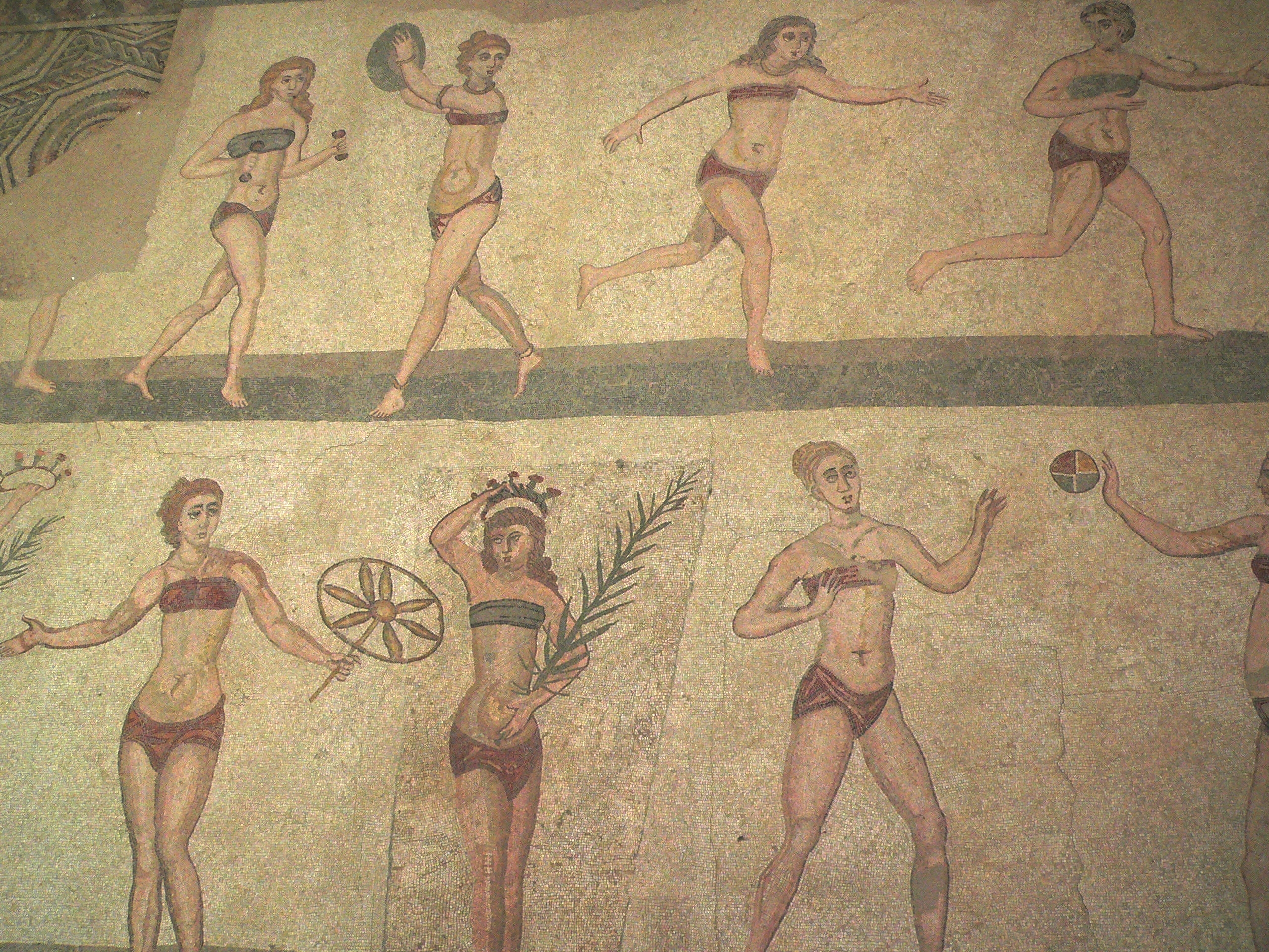 Famous "bikini girls" mosaic (found by archeological excavation of the ancient Roman villa near Piazza Armerina in Sicily), showing women exercising, running, or receiving the palm of victory and crown (for winning an athletic competition). Bikini Mosaic Villa Romana del Casale